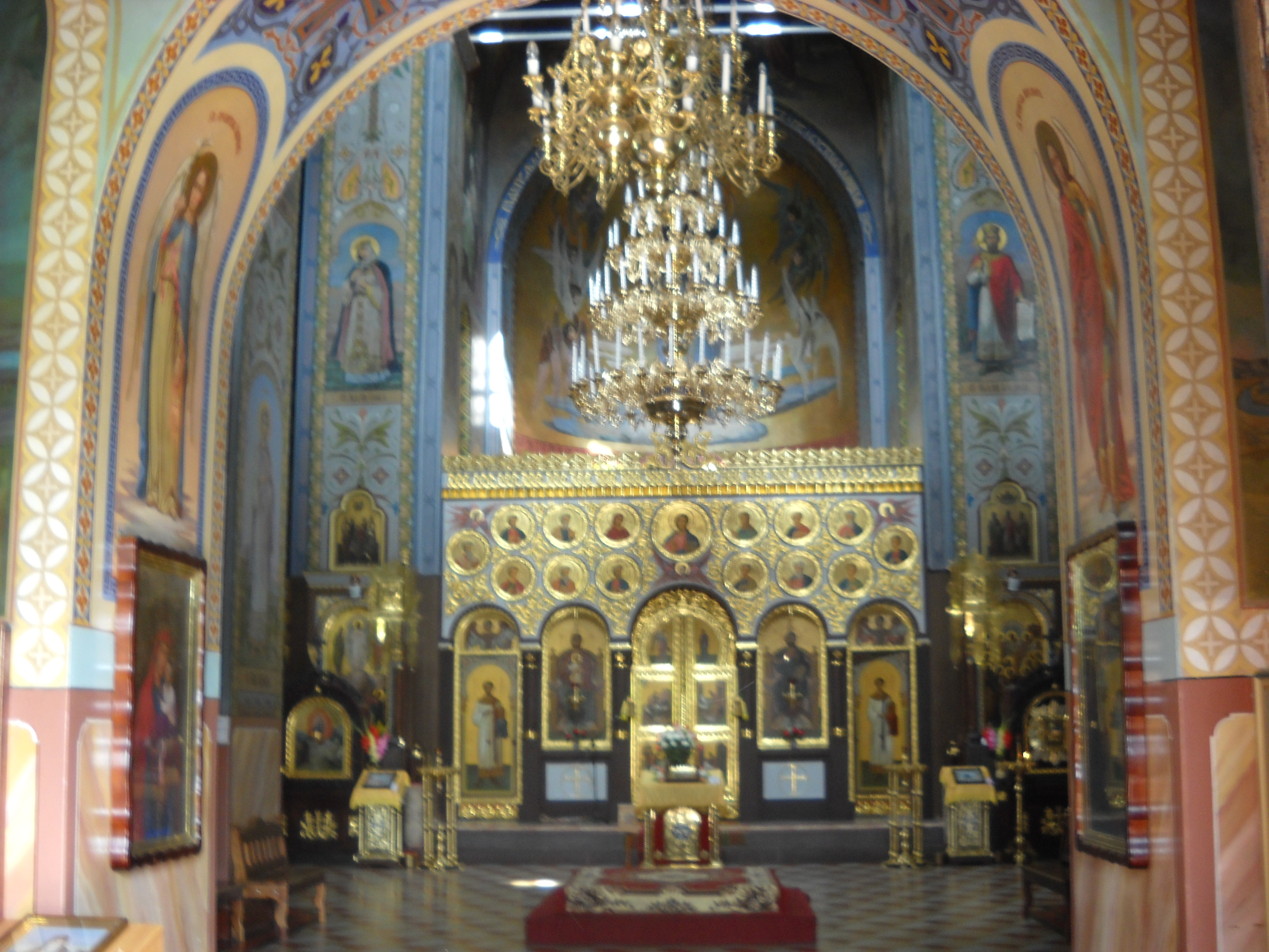 Inside the Dormition Orthodox Cathedral in Volodymyr Volynsky